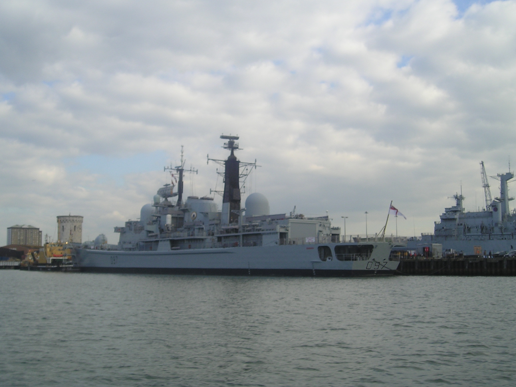 HMS Edinburgh Portsmouth April 2004 Author Paul Dashwood